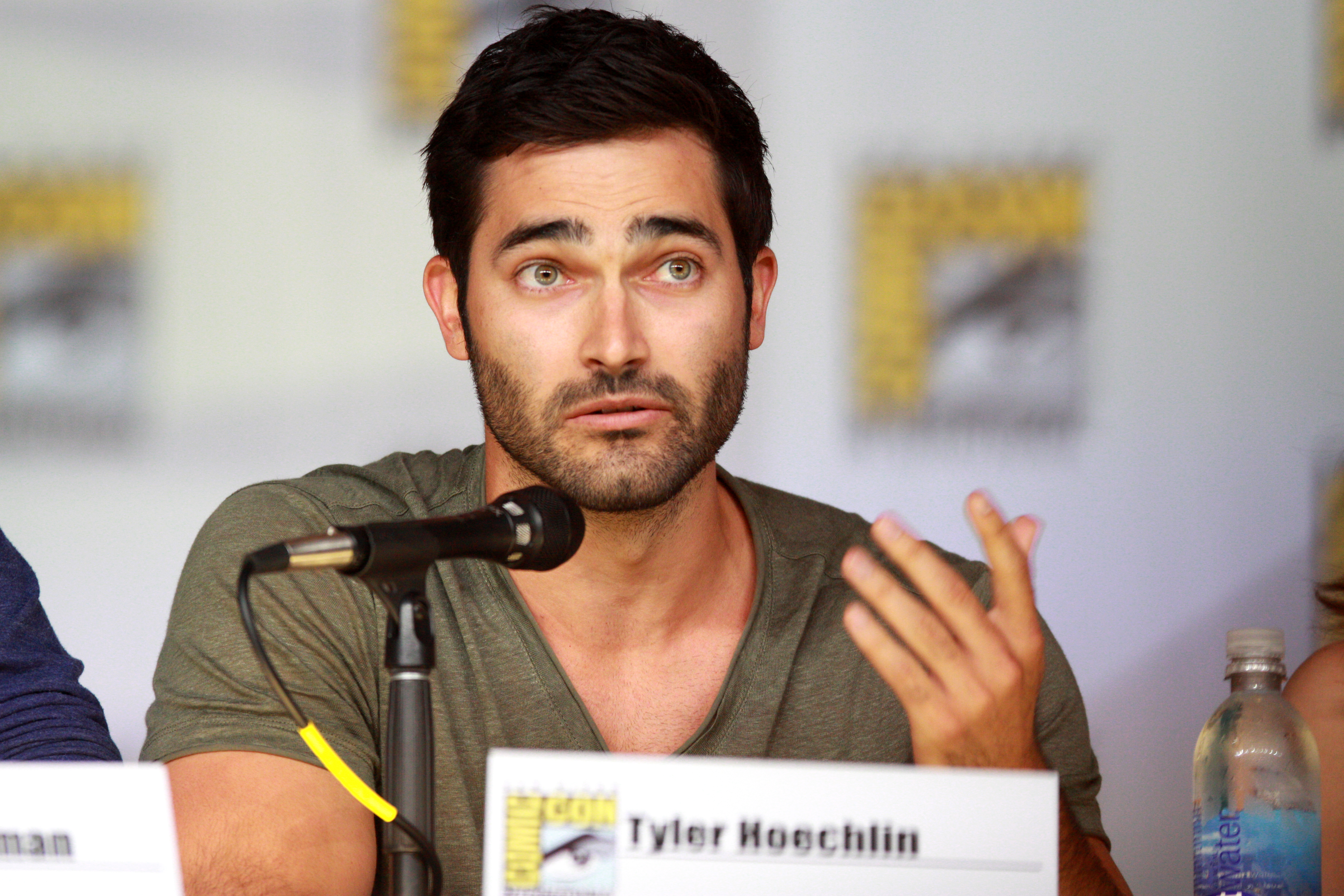 Tyler Hoechlin speaking at the 2013 San Diego Comic Con International, for "Teen Wolf", at the San Diego Convention Center in San Diego, California.